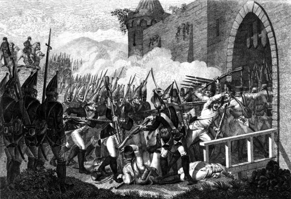 Battle of Lobositz